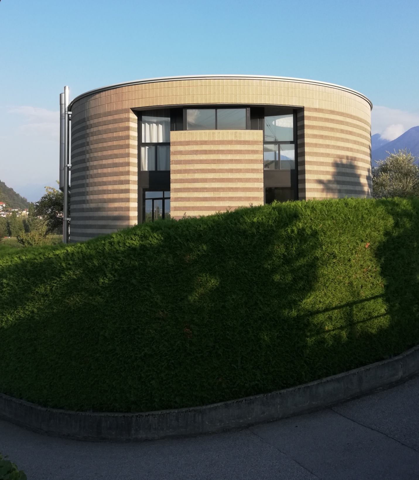 Private house in Losone, Switzerland, by Swiss architect Mario Botta